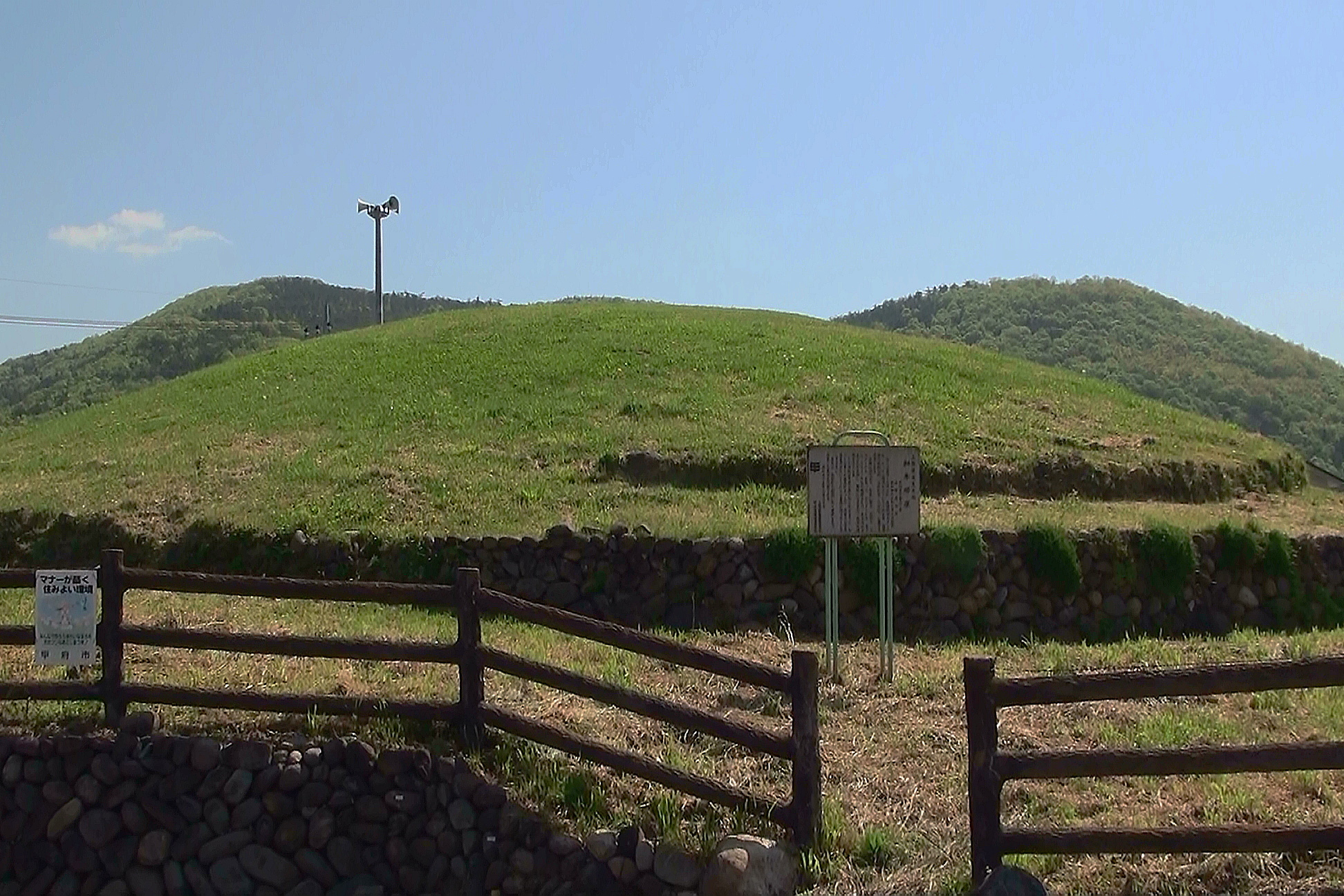 Kannaduka-Kofun,huge tomb. Kofu-city